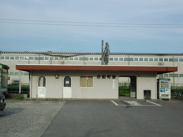 Iwafunemachi Station, Murakami, Niigata, Japan